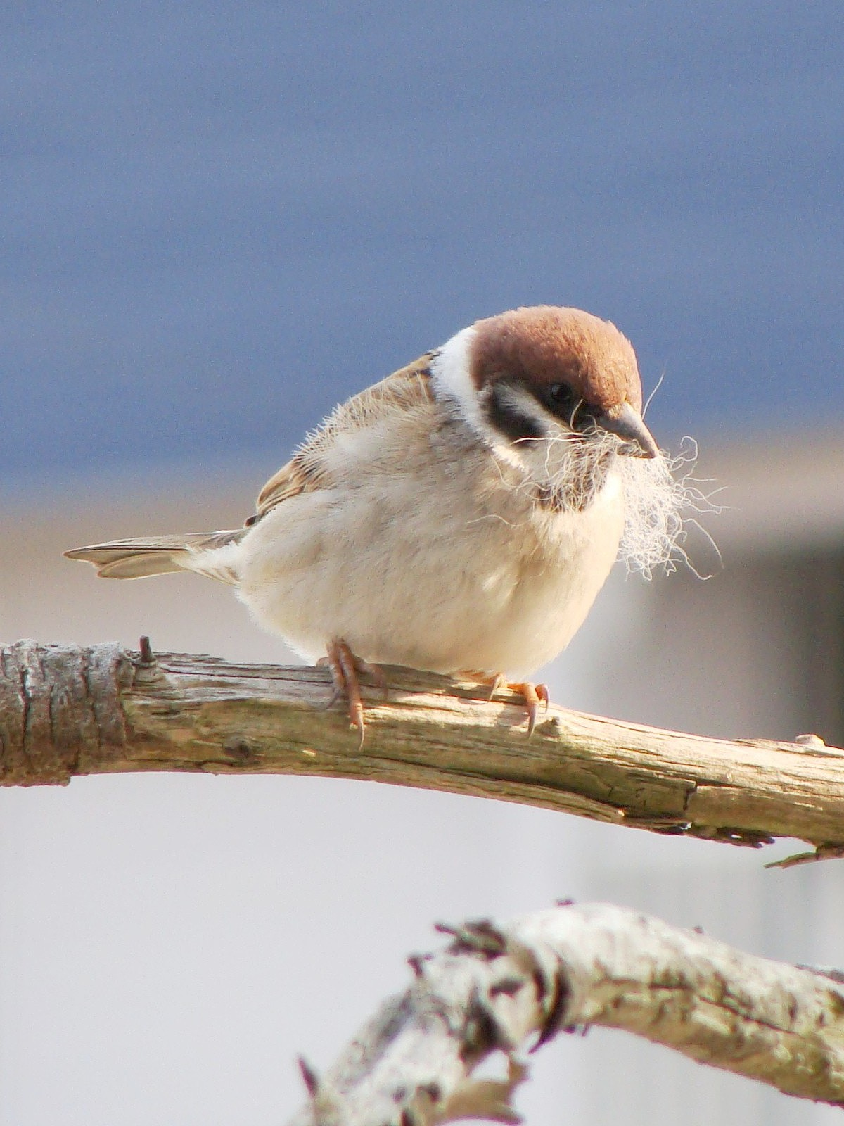 Tree Sparrow in Japan collecting nest material